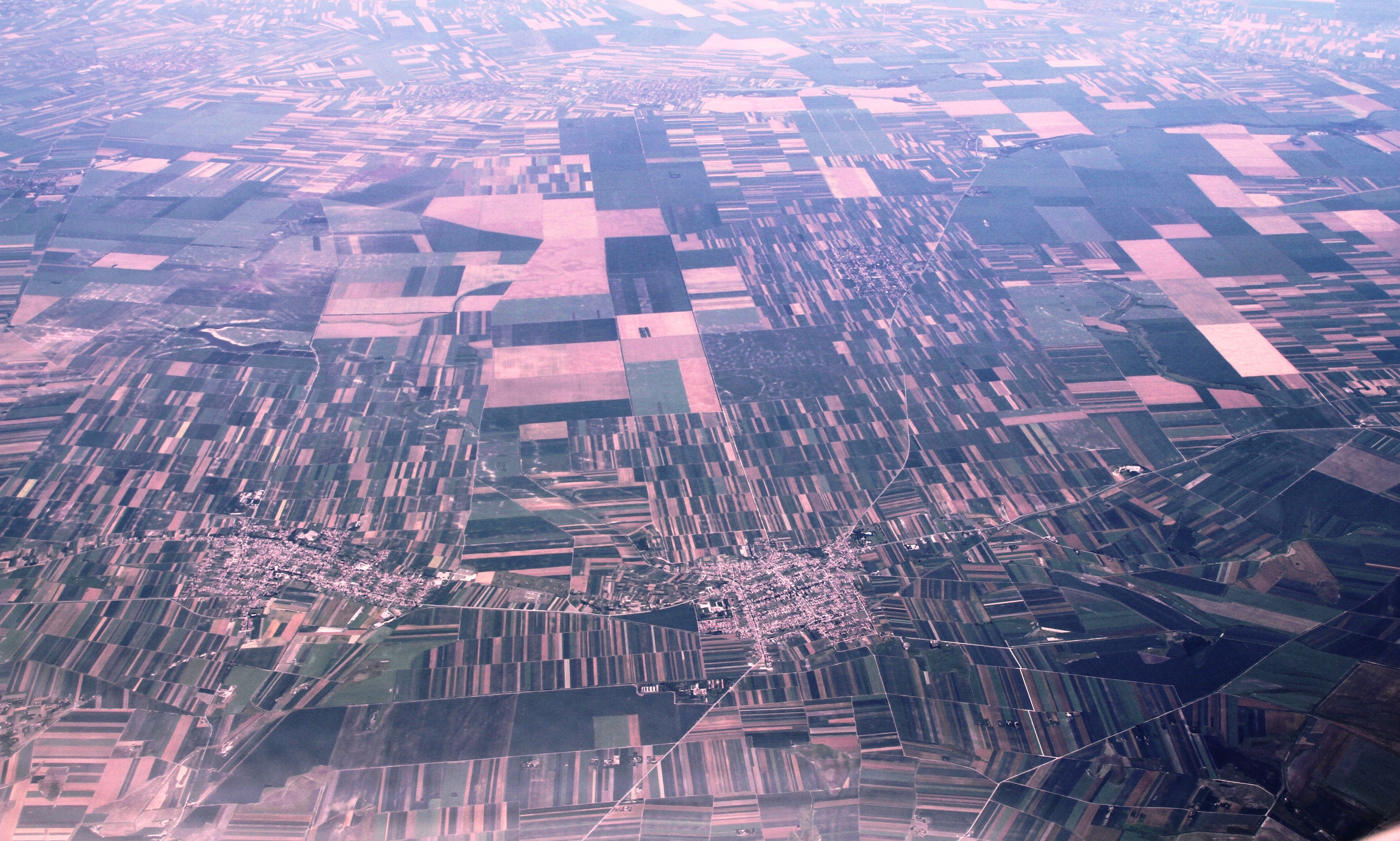 Aeril view - from the west towards east - over the agricultural lands of Vojvodina, northern Serbia.